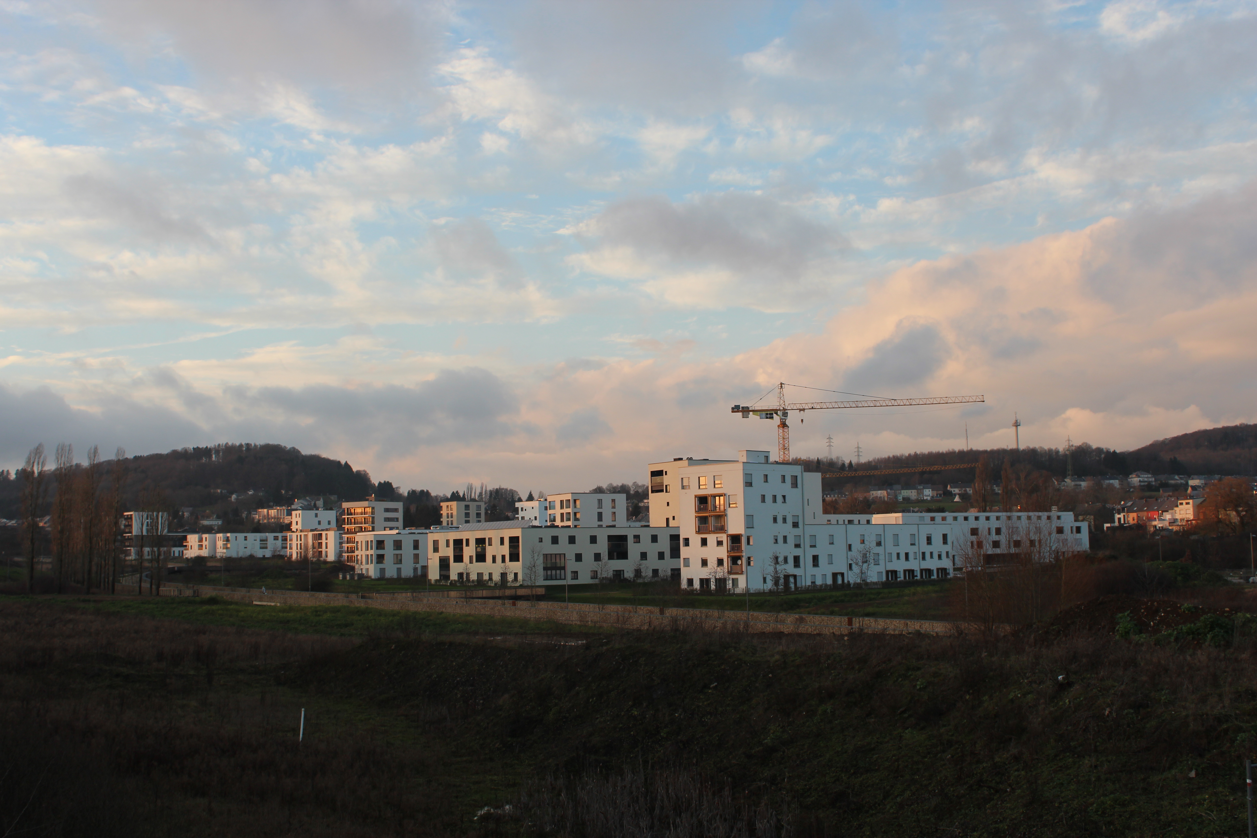 Belval Nord in Sanem, Luxembourg.